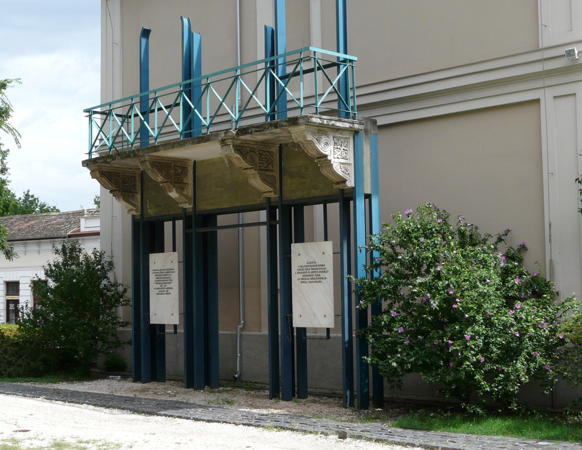 Cegléd (Hungary)